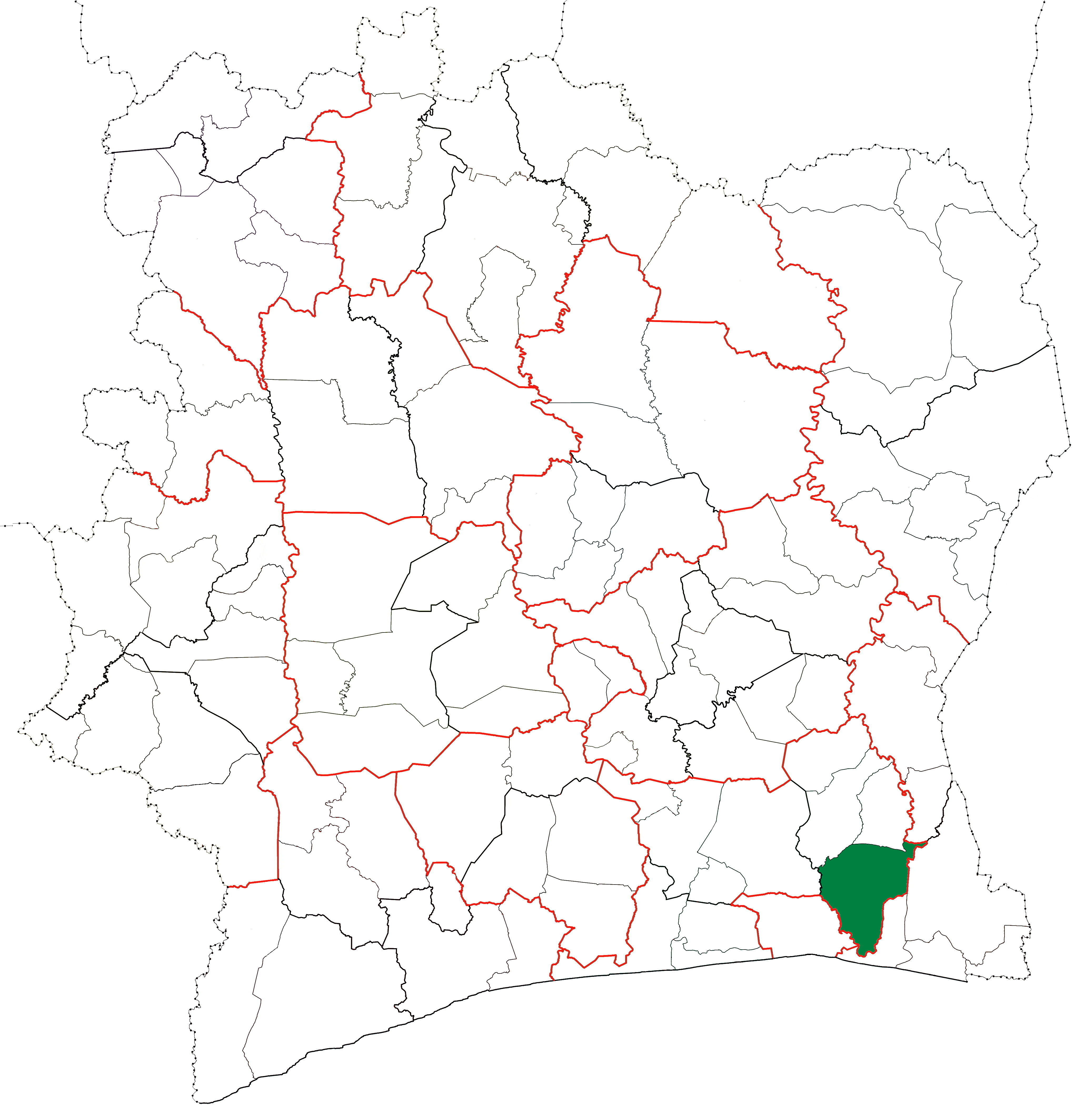 Locator map for Alépé Department in Côte d'Ivoire.